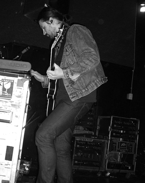 Tomo Miličević live with 30 Seconds to Mars at The Varsity in Baton Rouge on December 7, 2009.